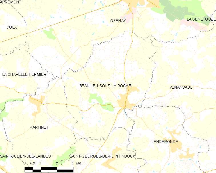 Map of French municipality Beaulieu-sous-la-Roche